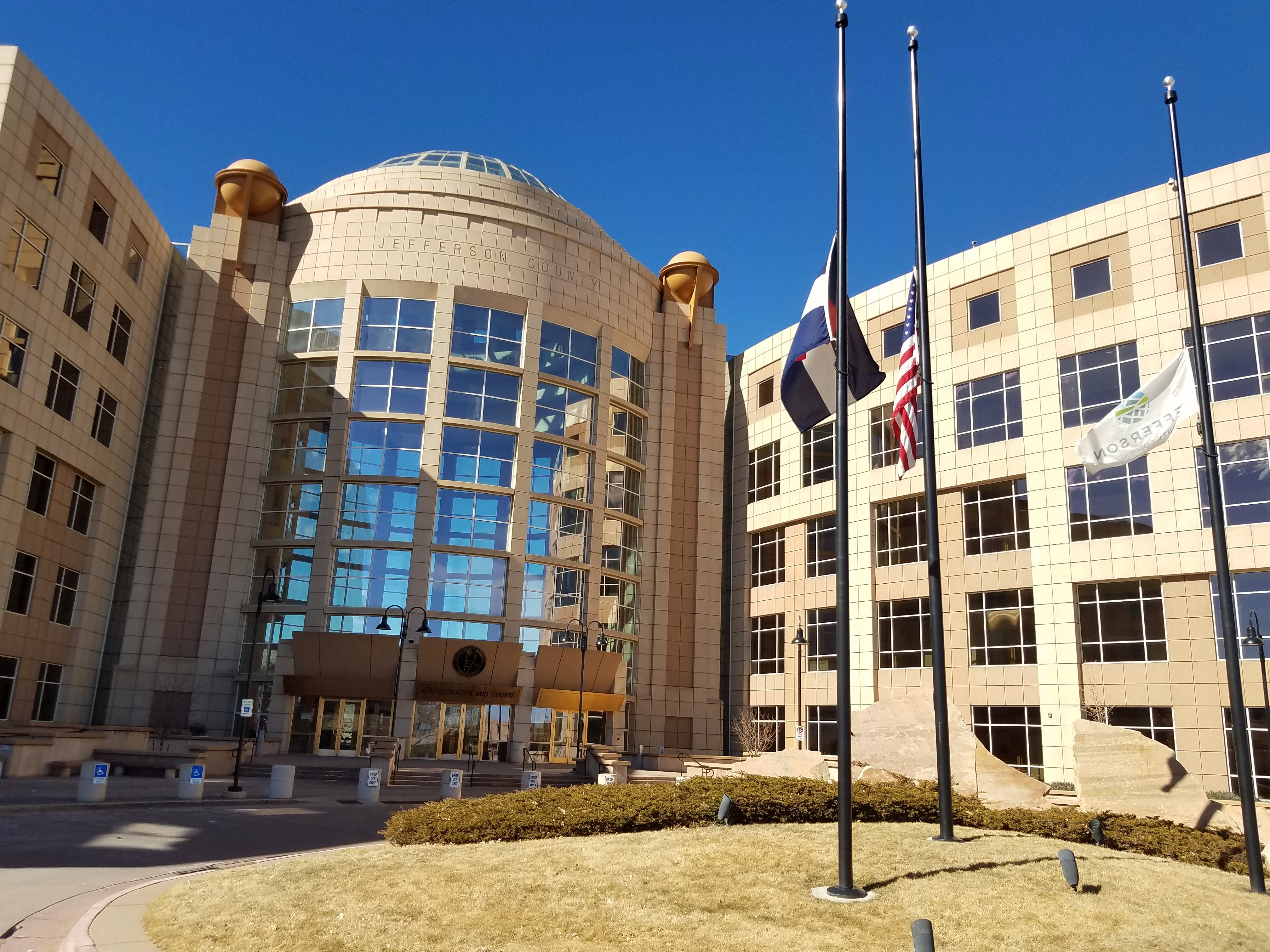 Jefferson County Court house at the Jefferson County Government Center.